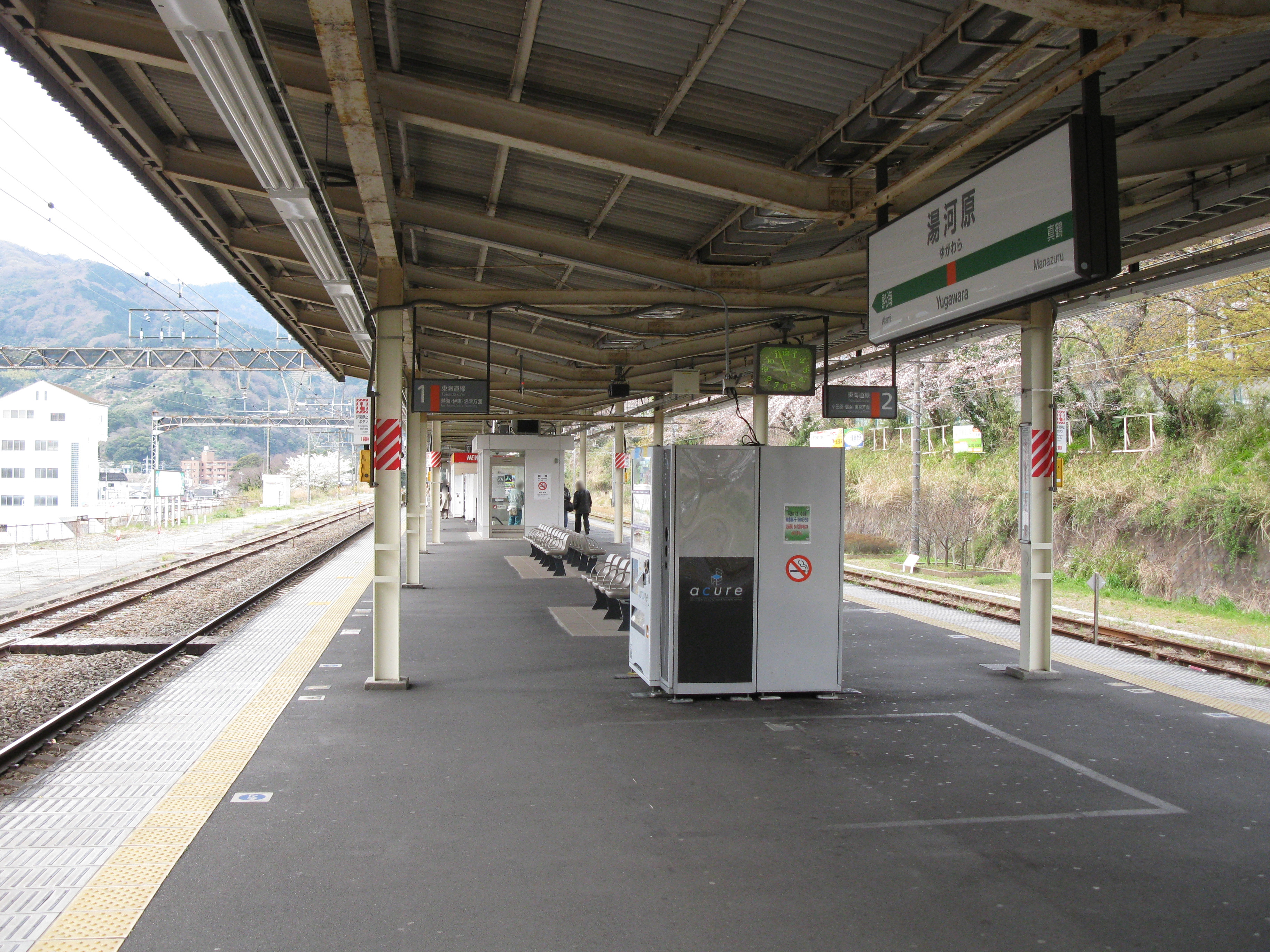 Yugawara Station platform (East Japan Railway(JR East) Tōkaidō Main Line)